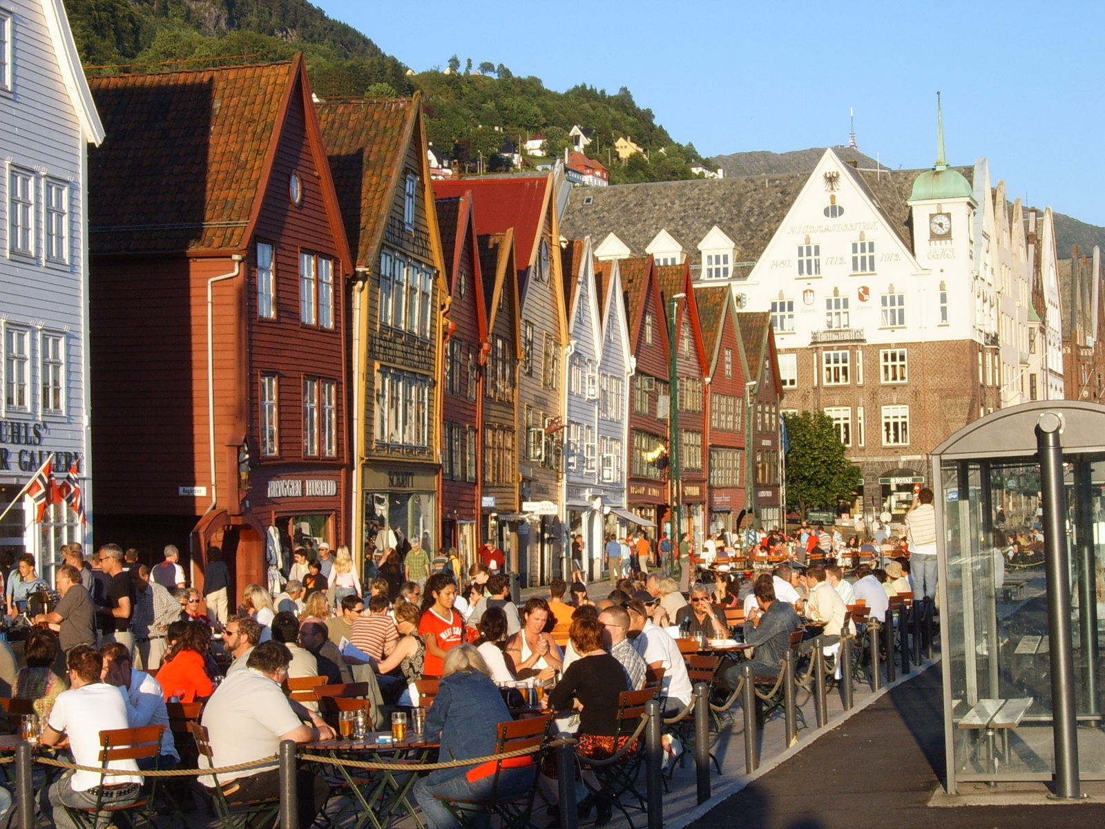 Bryggen, the hanseatic city of Bergen, Norway, july 2005